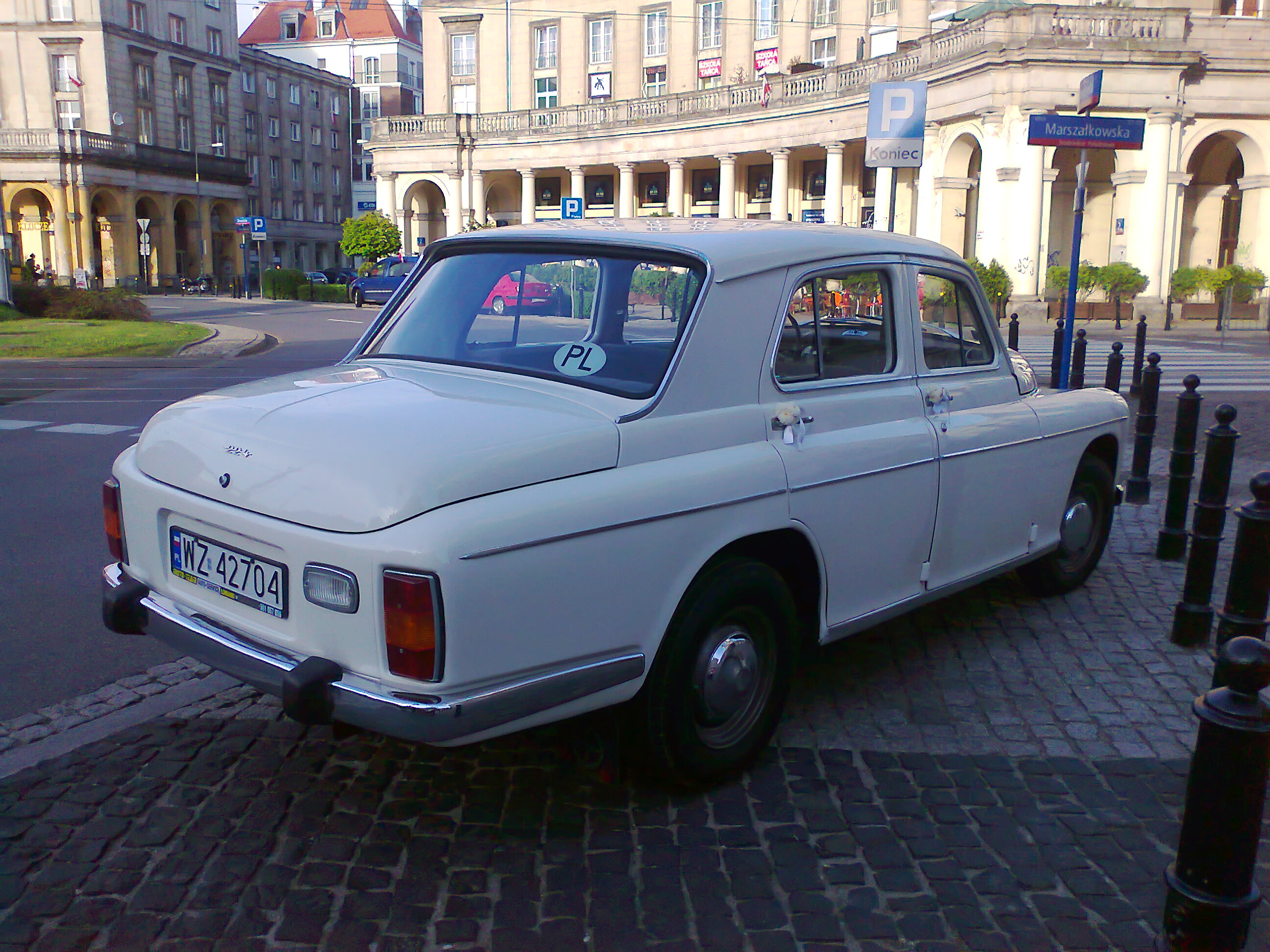 FSO Warszawa 224 car in Warsaw